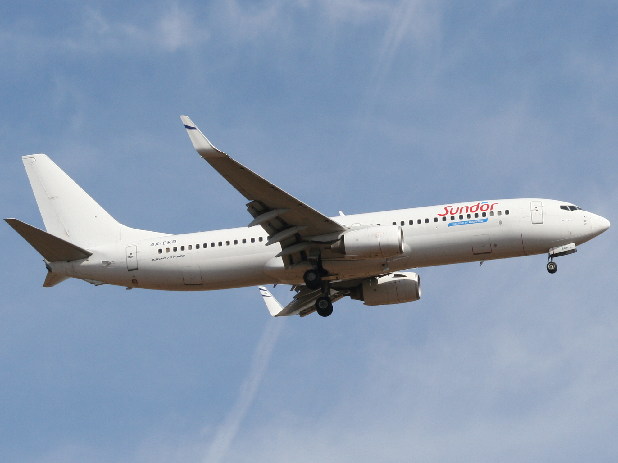 Landing on 21 at Ben Gurion International airport.